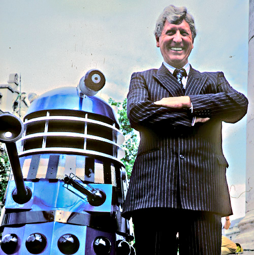 Tom Baker in London, 1991, at a photocall in Trafalgar Square